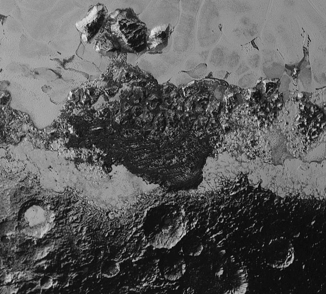 This 220-mile (350-kilometer) wide view of Pluto from NASA’s New Horizons spacecraft illustrates the incredible diversity of surface reflectivities and geological landforms on the dwarf planet. The image includes dark, ancient heavily cratered terrain; bright, smooth geologically young terrain; assembled masses of mountains; and an enigmatic field of dark, aligned ridges that resemble dunes; its origin is under debate. The smallest visible features are 0.5 miles (0.8 kilometers) in size. This image was taken as New Horizons flew past Pluto on July 14, 2015, from a distance of 50,000 miles (80,000 kilometers).